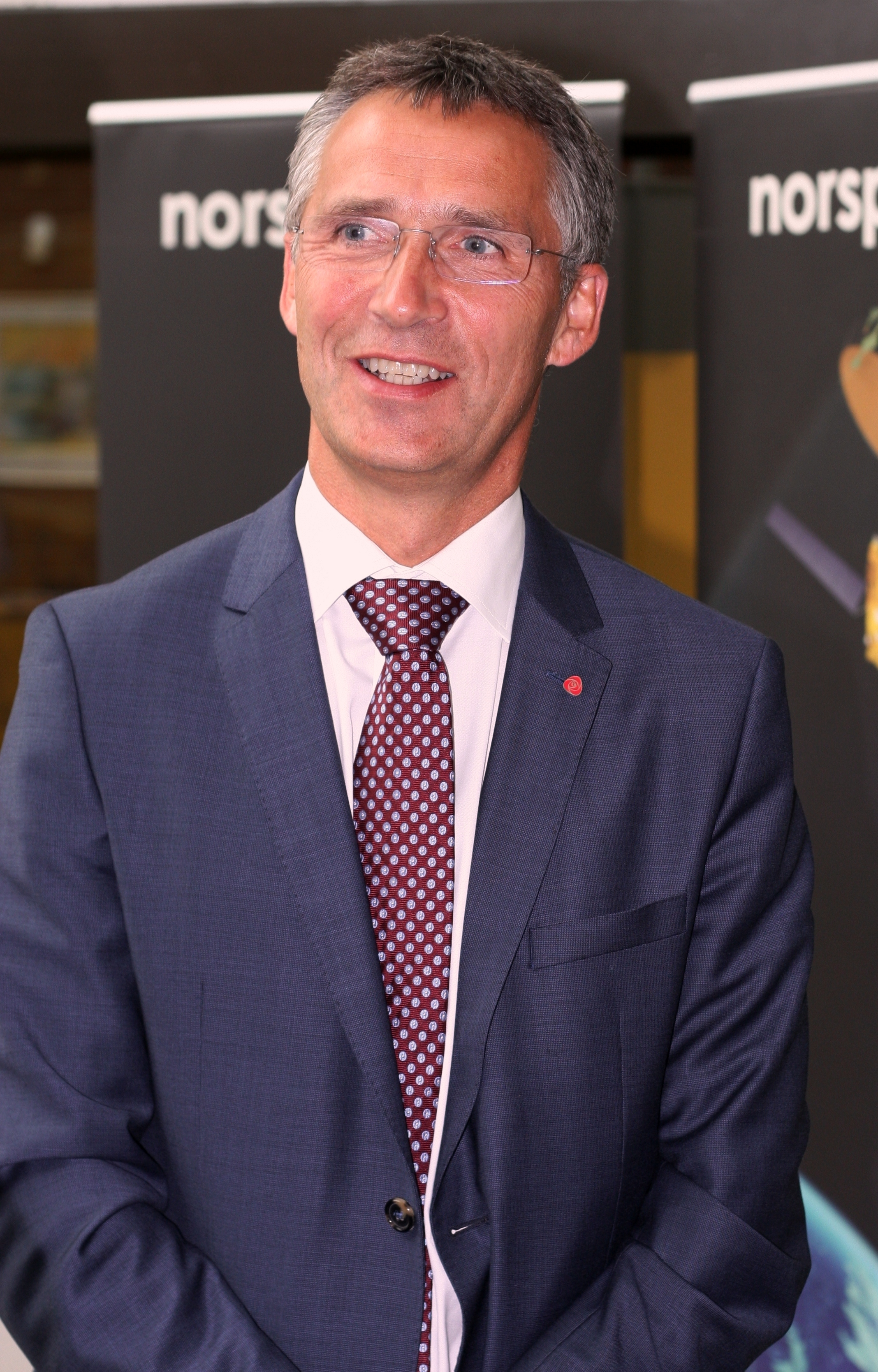 Prime minister Jens Stoltenberg (Norway), as of August 24, 2011